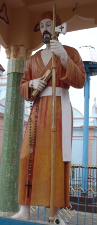 Constantine Joseph Beschi